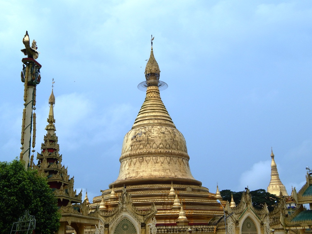 Maha Wizaya Pagoda, Yangon, Burma